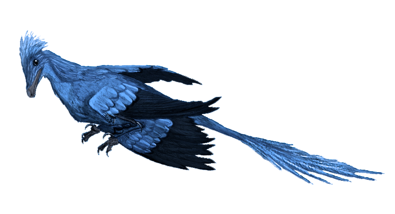 Illustration of the small theropod dinosaur Microraptor zhaoianus by Matt Martyniuk. Graphite and digital. Based upon skeletal reconstructions by Scott Hartman and figures provided in: Xu, X., Zhou, Z., Wang, X., Kuang, X., Zhang, F. and Du, X. (2003). "Four-winged dinosaurs from China." Nature, 421(6921): 335-340, 23 Jan 2003.